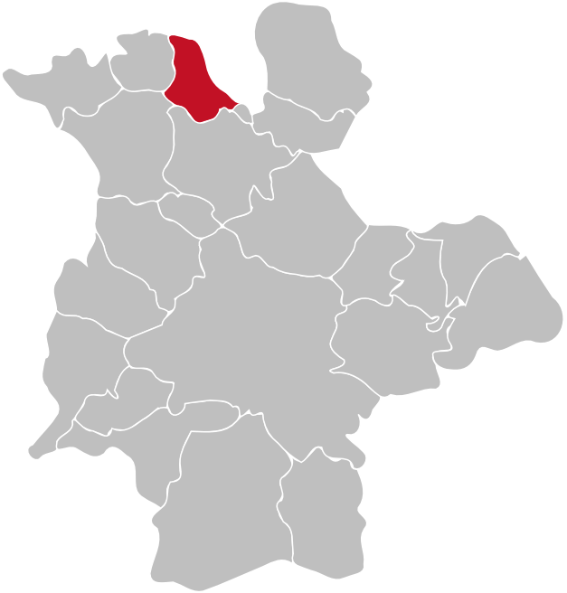 Location of the district Sohlbach within Siegen, Germany. Red/Grey colors match the color scheme of Germany maps and information boxes in German Wikipedia. District is highlighted in red.